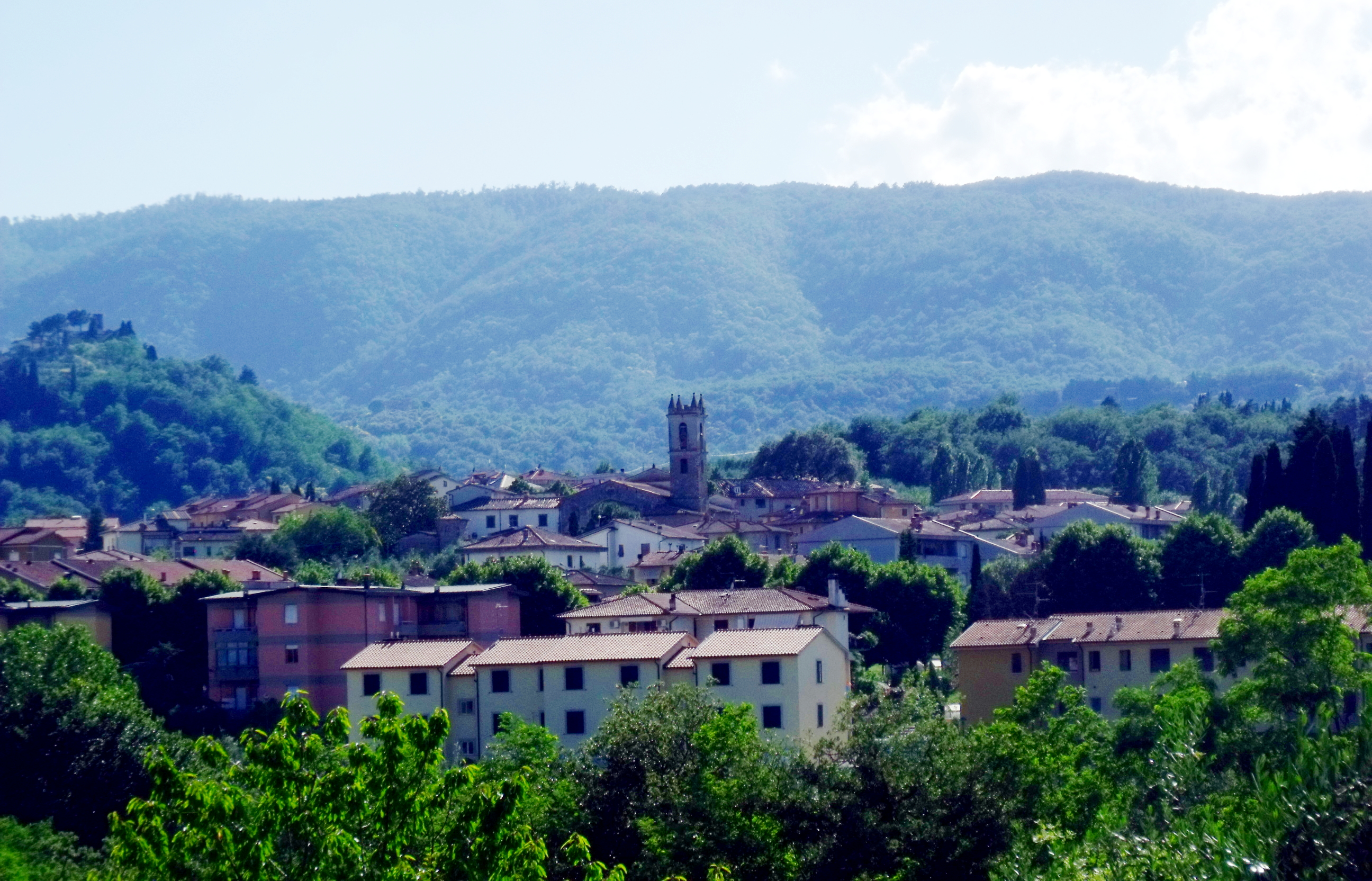 Panorama of Cavriglia, Valdarno, Province of Arezzo, Tuscany, Italy